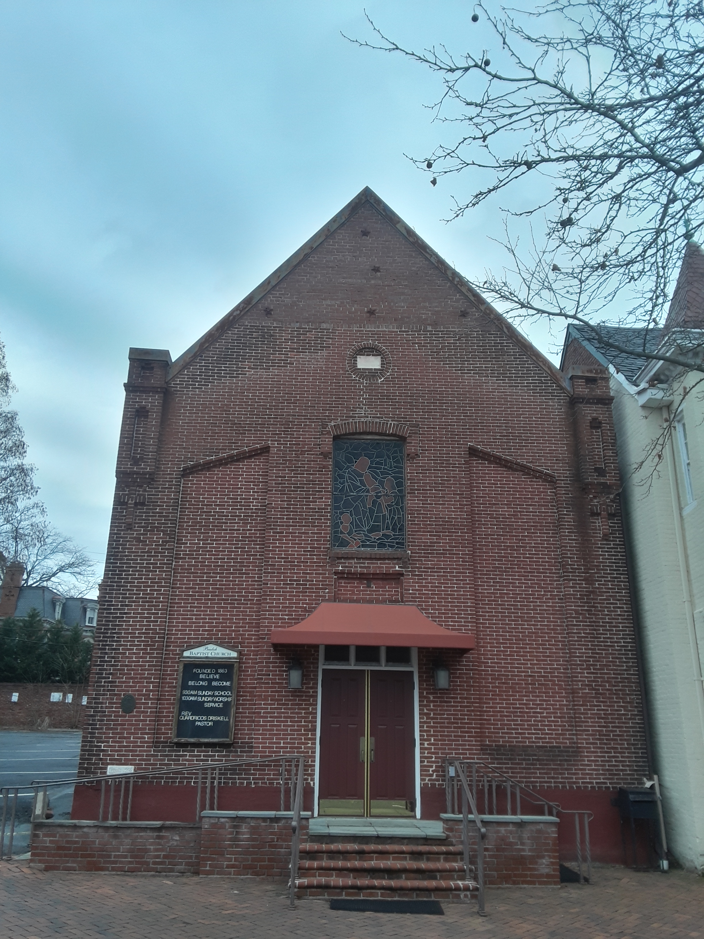 Beulah Baptist Church, Alexandria, Virginia